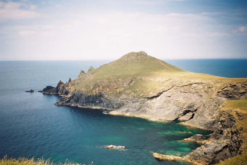 The Rumps, site of Iron Age cliff fortifications, at Pentire Point, Cornwall. Taken by myself, 2001. CC-by license.